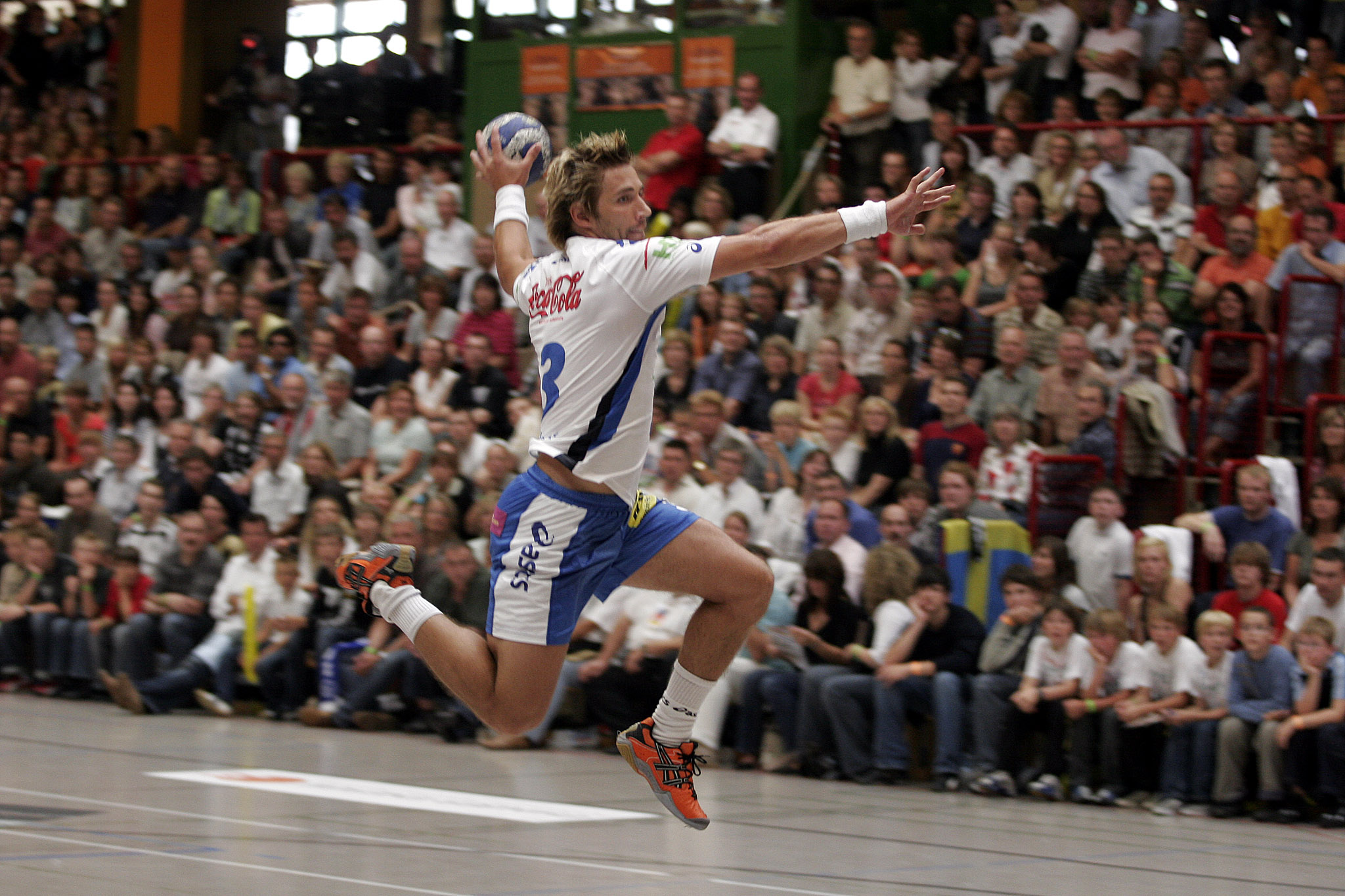 Stefan Schröder, German Handball player from HSV Hamburg, during the Schlecker Cup 2007 in Ehingen (Germany), picture two of a series of three